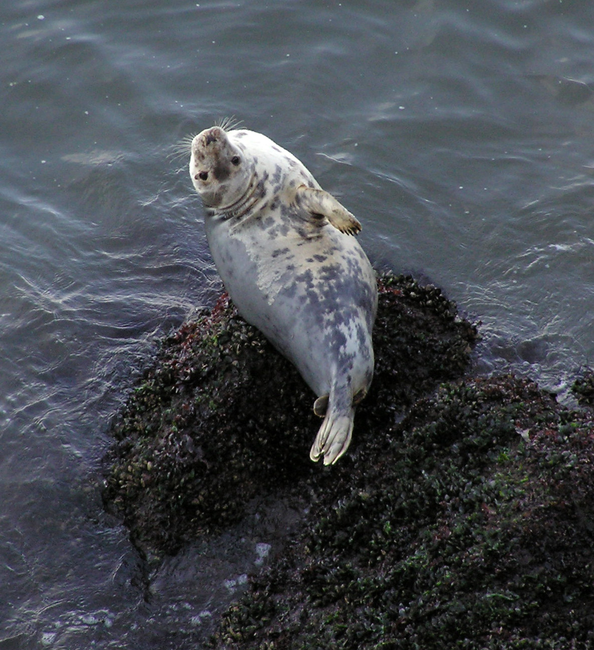 Grey seals at Rhossili on the Gower Peninsula, South Wales.